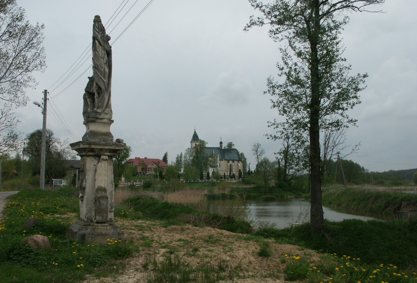 Church of Saints Peter and Paul in Sancygniów, Poland, built in the 15th century, then reconstructed.